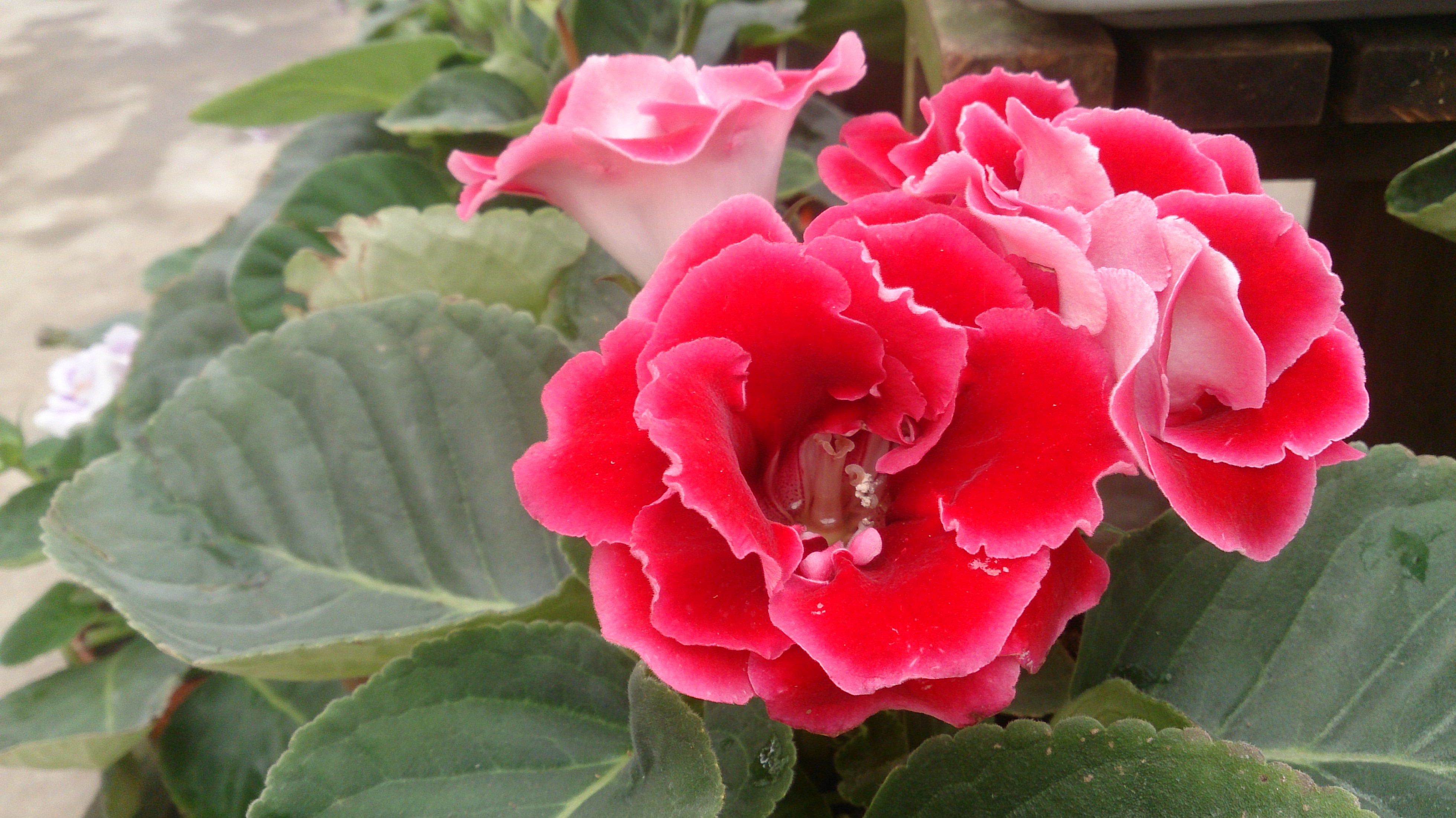 Gloxinia